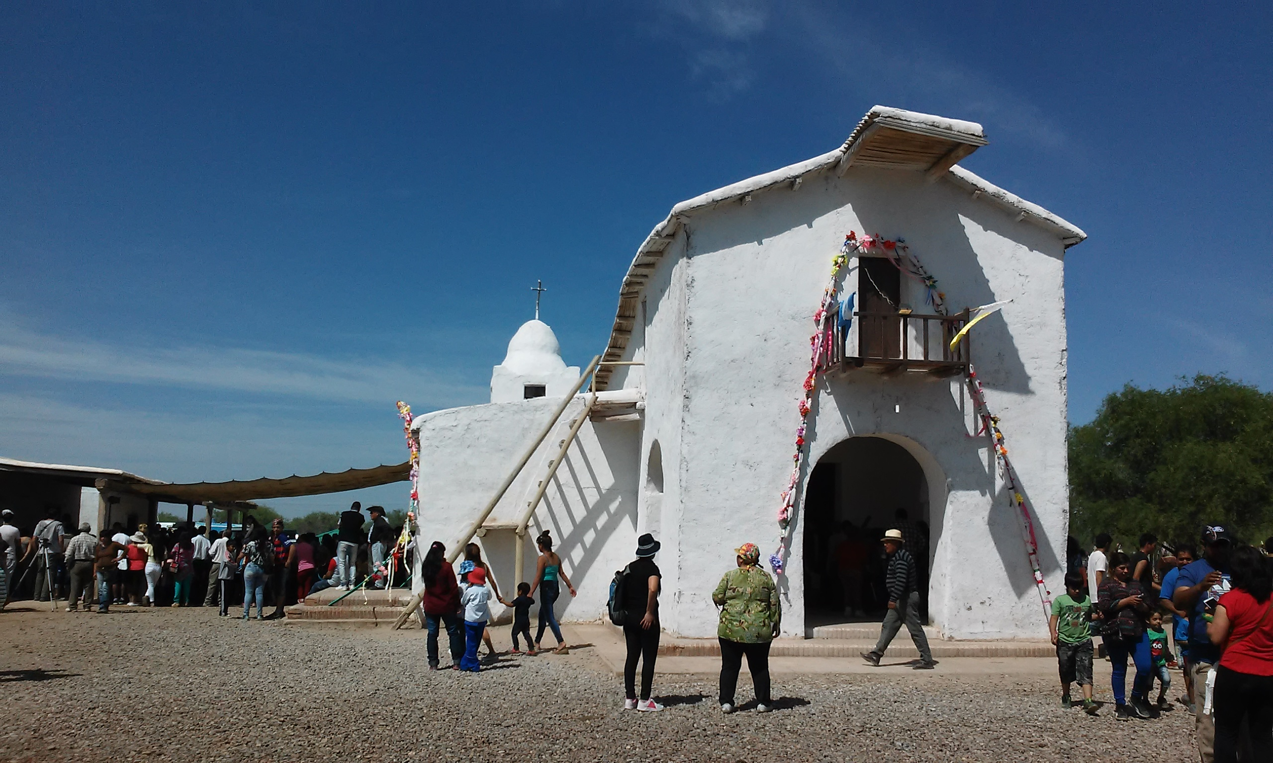 Guanacache (Mendoza): continuamos trabajando con la recuperación de la Capilla Nuestra Señora del Rosario, Monumento Histórico Nacional, que está siendo intervenida con mano de obra local cuyos salarios son abonados por el Ministerio de Cultura. Se gestionará la compra de materiales para terminar los trabajos y se realizará también la puesta en valor de distintas casas del pueblo. La Comisión Nacional de Monumentos gestionó ante la Dirección Nacional de Arquitectura un crédito aprobado para la realización de obras de infraestructura en las Lagunas del Rosario.